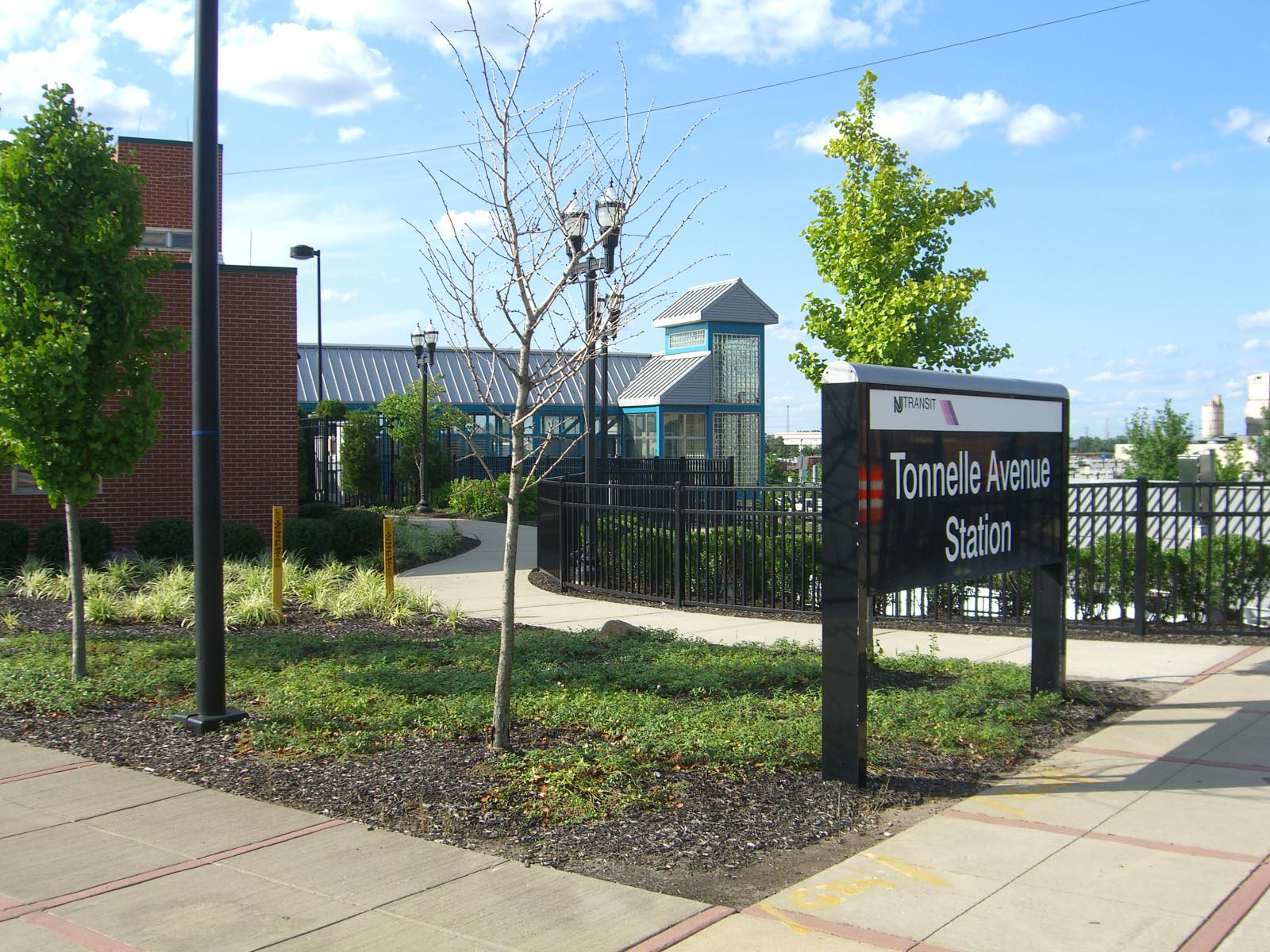 The Tonnelle Ave station of the Hudson-Bergen Light Rail line in North Bergen, New Jersey.